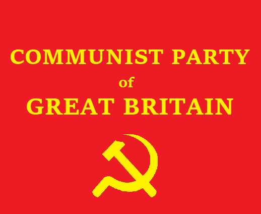 Mock up of CPGB Banner from the 1930s